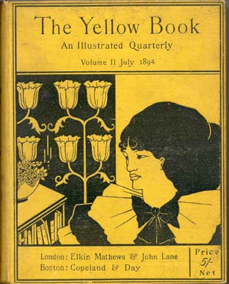 The cover of the Yellow Book periodical 1890s Downloaded from (The cover is by Aubrey Beardsley, d. 1898.)